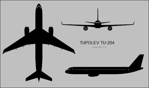 3-view silhouettes of the Tupolev Tu-204